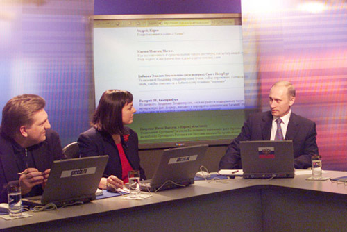 THE KREMLIN, MOSCOW. During online news conference. With BBC correspondent Bridgett Kendall and Editor-in-Chief of Gazeta.ru Vladislav Borodulin.